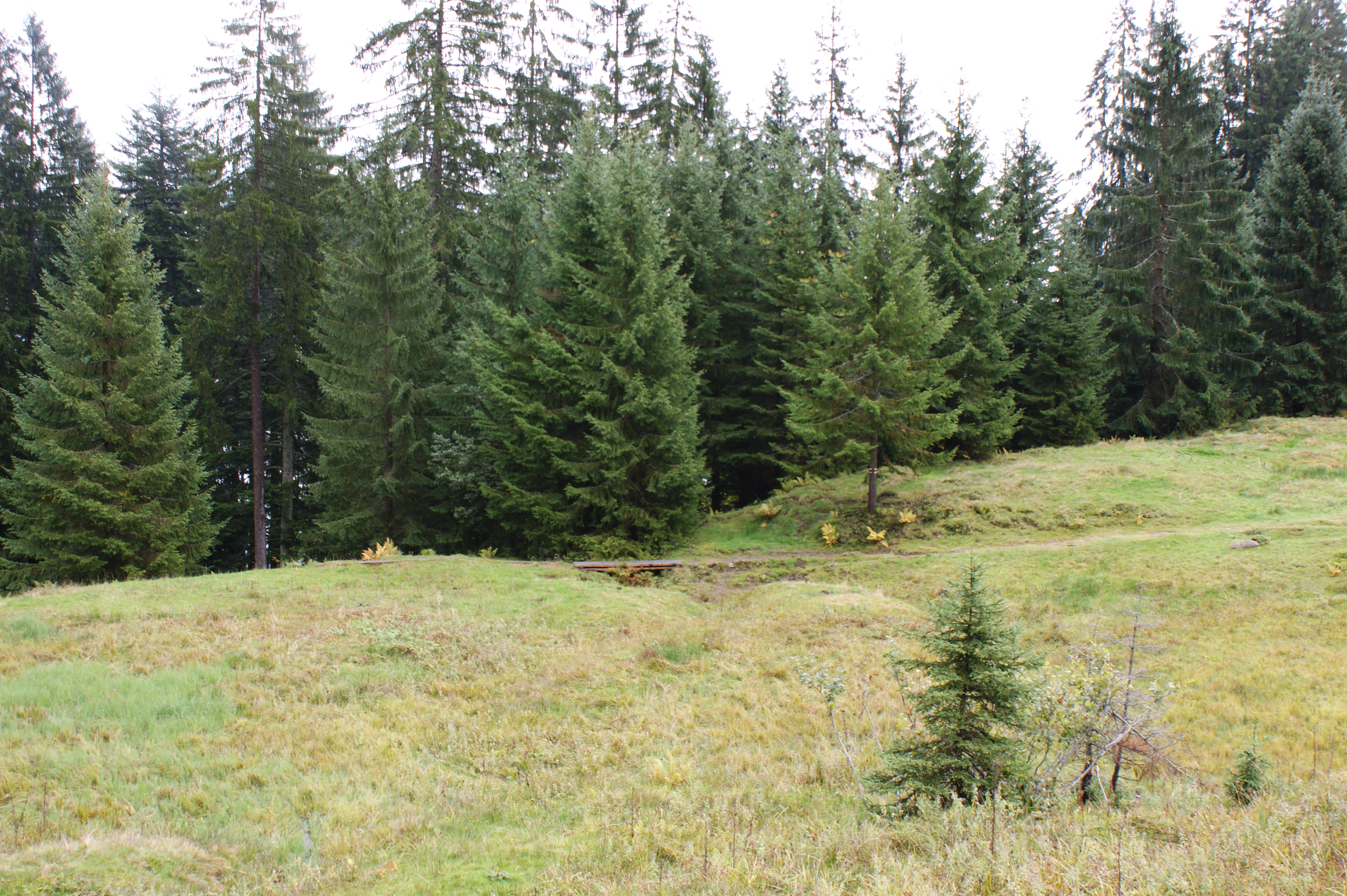 Small bridge on the trail (Spechtweg) to the Alp "Hochaelpele" (also: "Hochaelpelealpe" or "Haemmerles Aelpele") in the municipality Schwarzenberg in Vorarlberg, Austria at about 1250 masl.